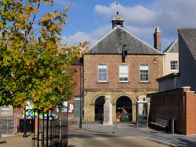 Langport Town Hall From the front